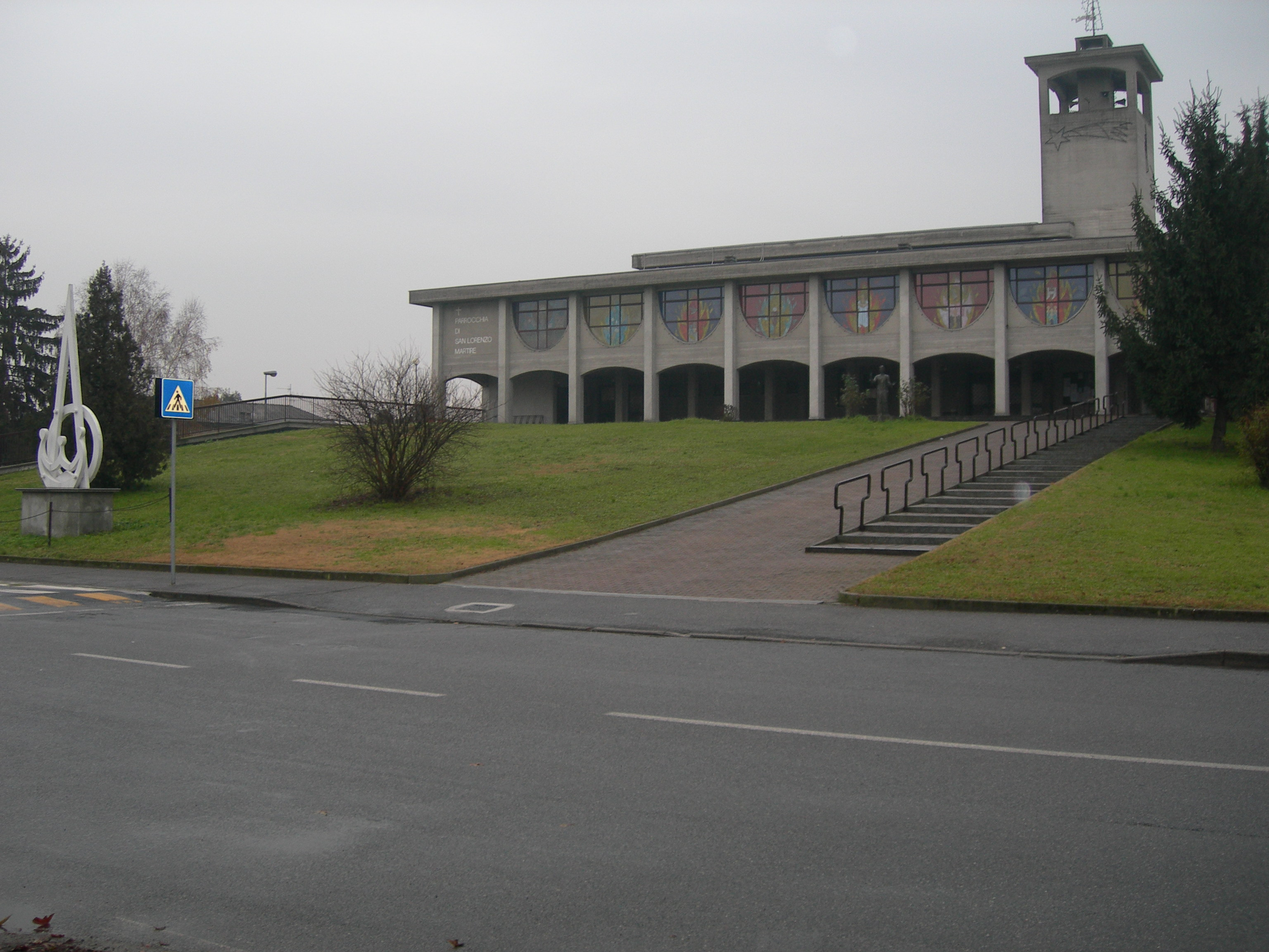 church of San Lorenzo in Riozzo